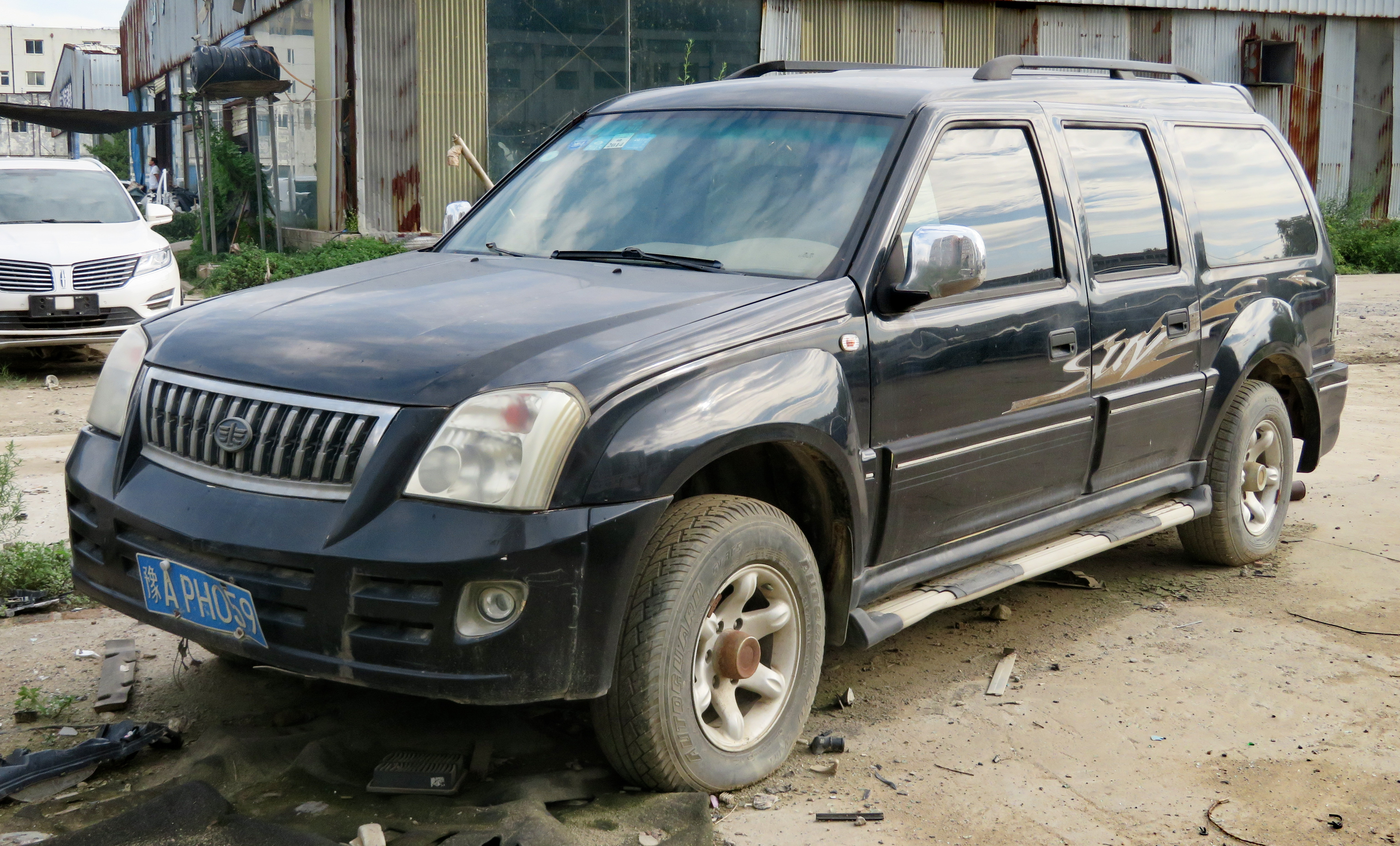 A 2005 FAW-Jiefang Xin Saibao CA6480P6E1 photographed in Zhengzhou, Henan province, China